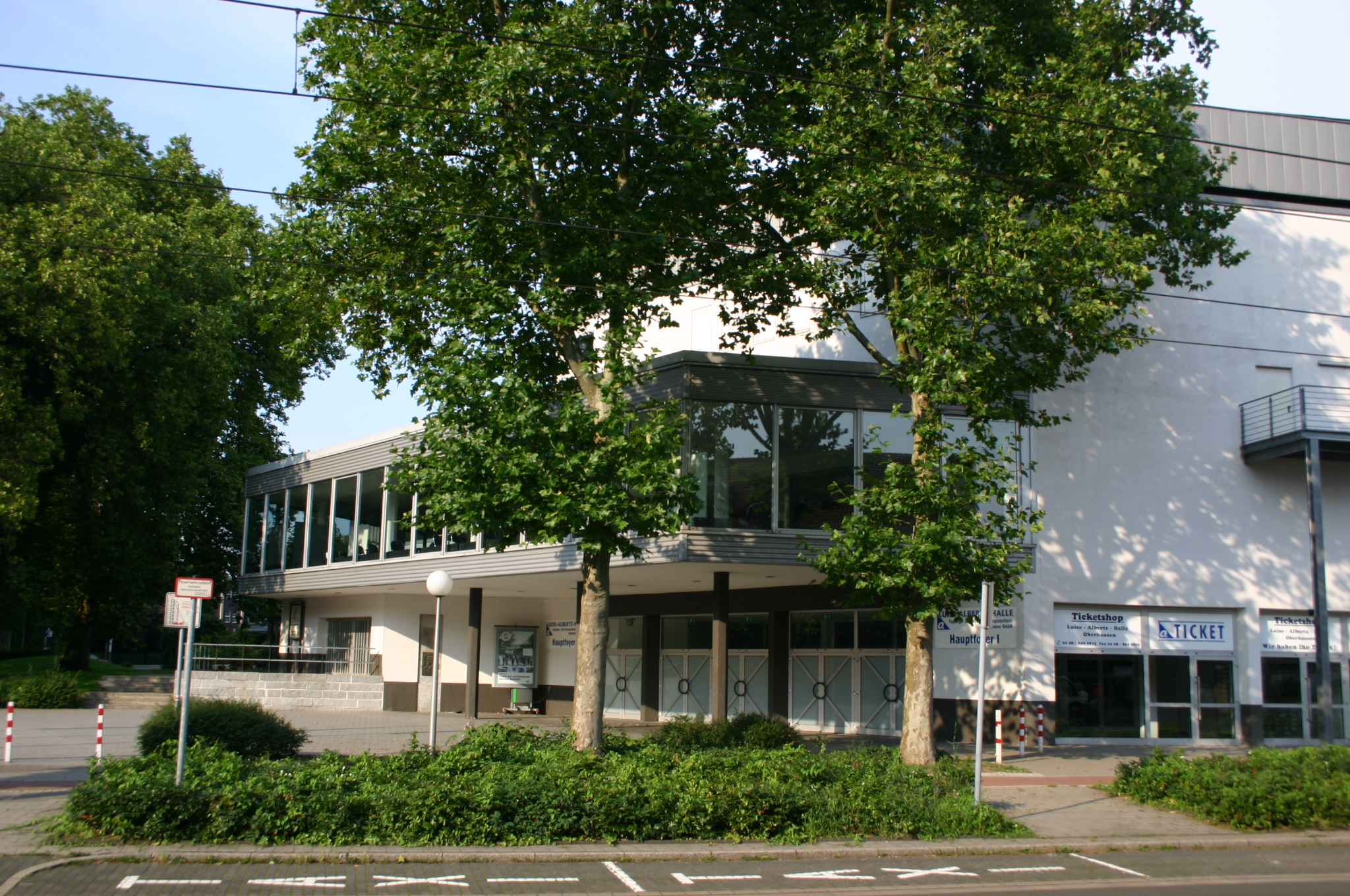 Luise-Albertz-Hall (Oberhausen), main entrance